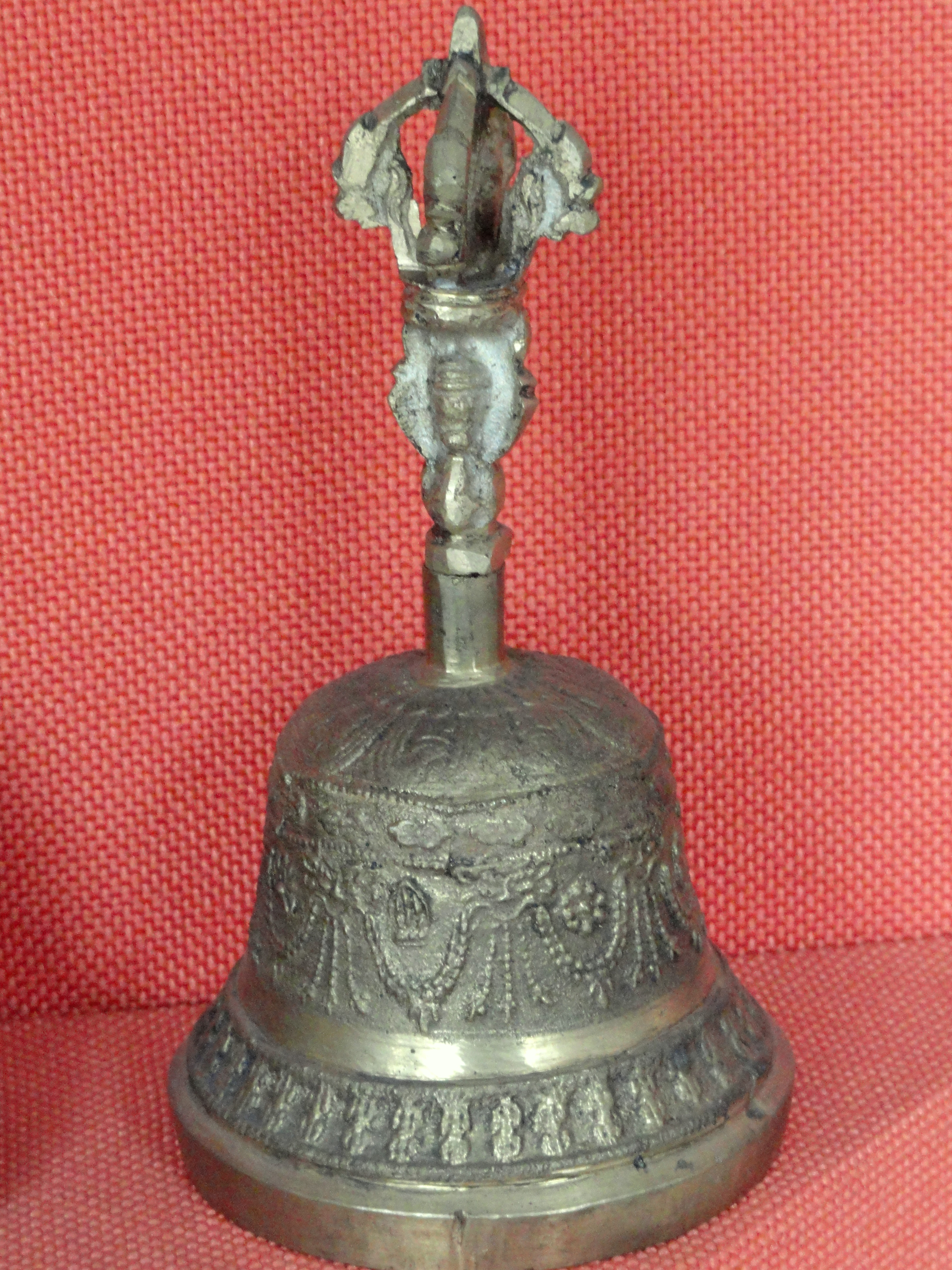 Tibetan "jingang" bell. Musical instruments in the Yunnan Nationalities Museum, Kunming, Yunnan, China. Trilbu དྲིལ་བུ་ is a bell used by buddhist monks in Tibet